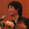 gitster (Junio Hamano) at FreedomHEC Taipei '08